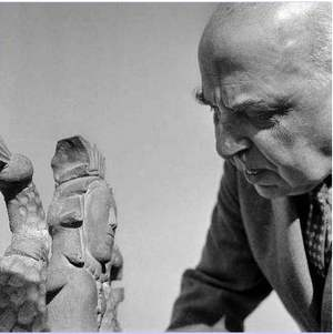 Ο Γιώργος Σεφέρης είναι ένας από τους σημαντικότερους Έλληνες ποιητές που βραβεύτηκε με το Νόμπελ Λογοτεχνίας το 1963. Σπούδασε λογοτεχνία και νομική στο Παρίσι και εργάστηκε στο διπλωματικό σώμα του Υπουργείου Εξωτερικών.